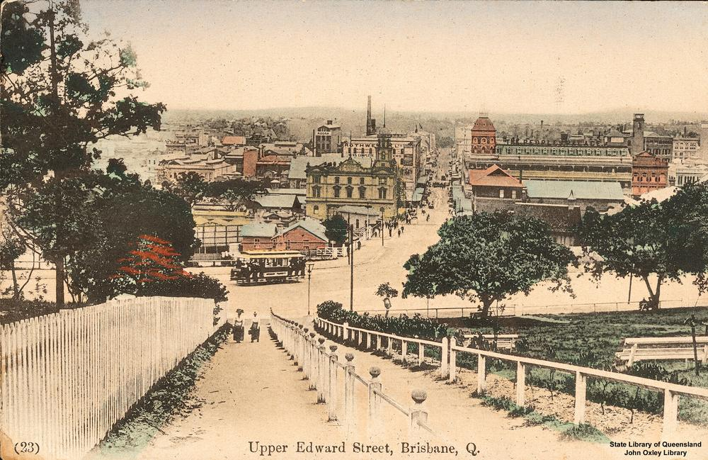 View from Jacob's Ladder, King Edward Park, Brisbane, ca. 1915. Colour view from Jacob's Ladder, King Edward Park, Brisbane, ca. 1915,including the Brisbane City Fire Station (at left) and the People's Palace (at right) and along Edward Street. A tram passes at the foot of the steps.